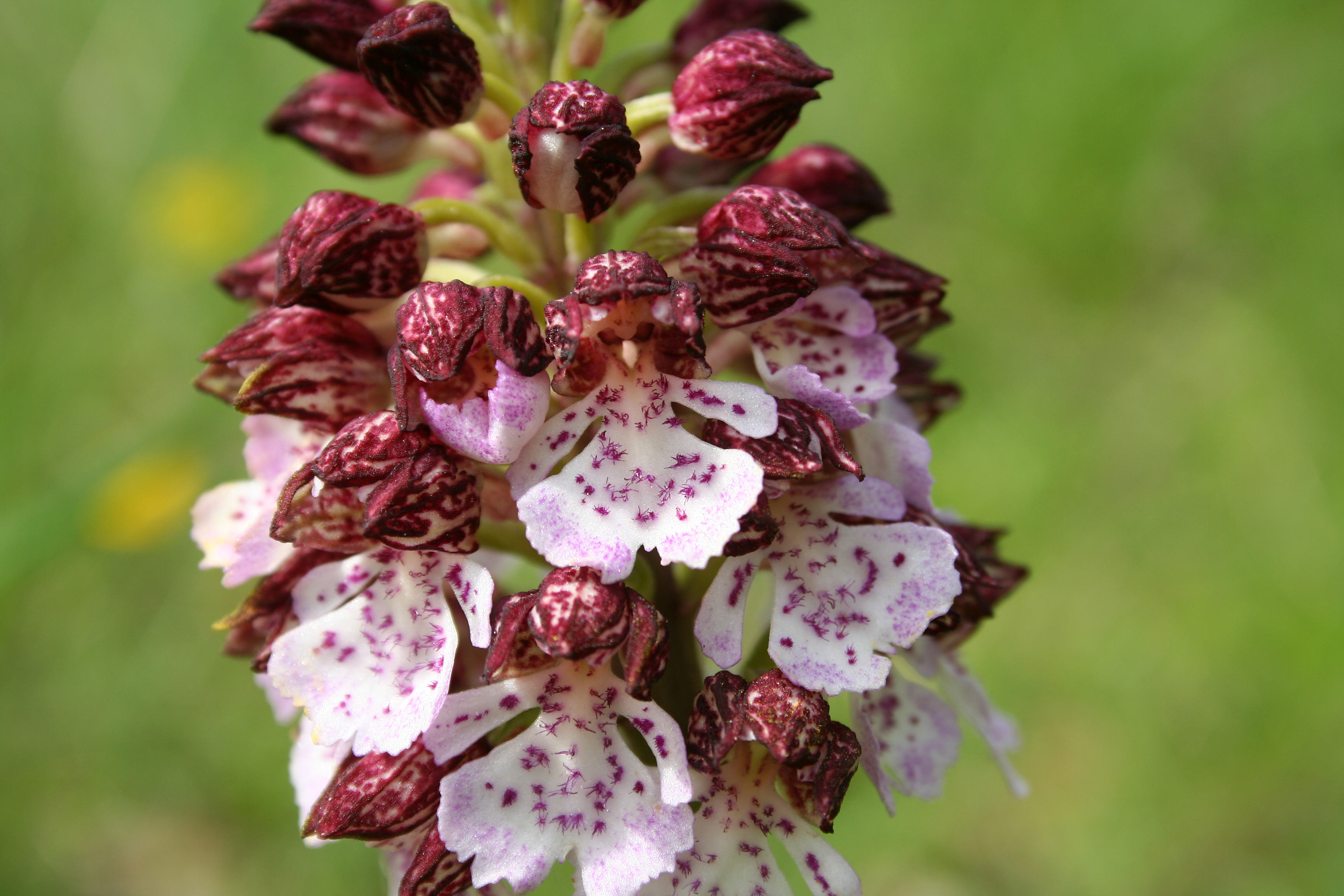 Closeup view of an Orchis purpurea inflorescence. Maine-et-Loire, France.